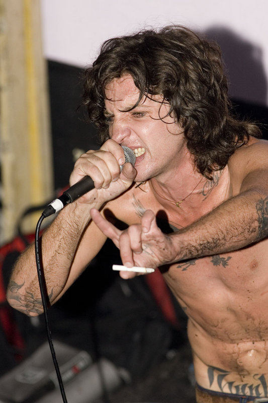 Mickey Avalon, San Diego, by Andrew Huse